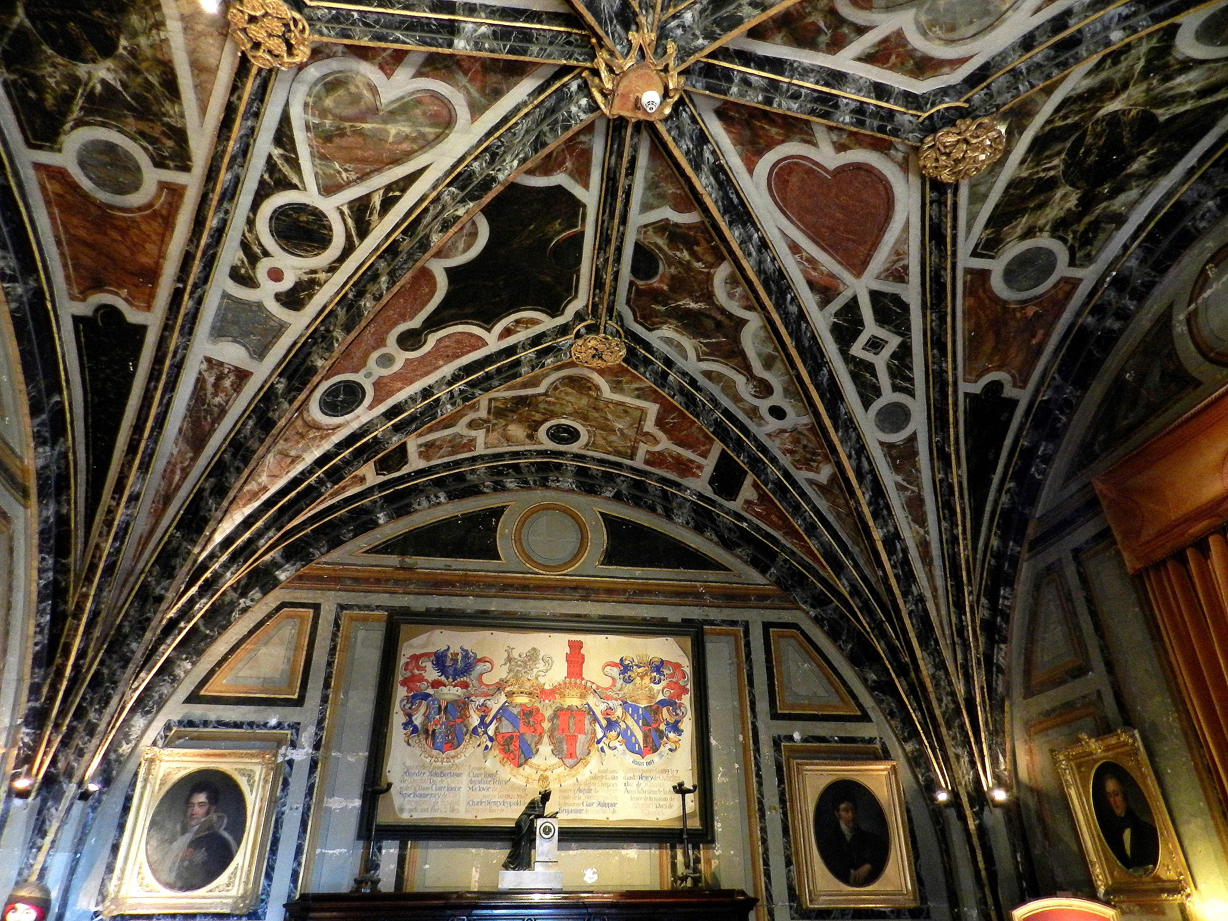 Interior, Ussé Castle, Loire, France